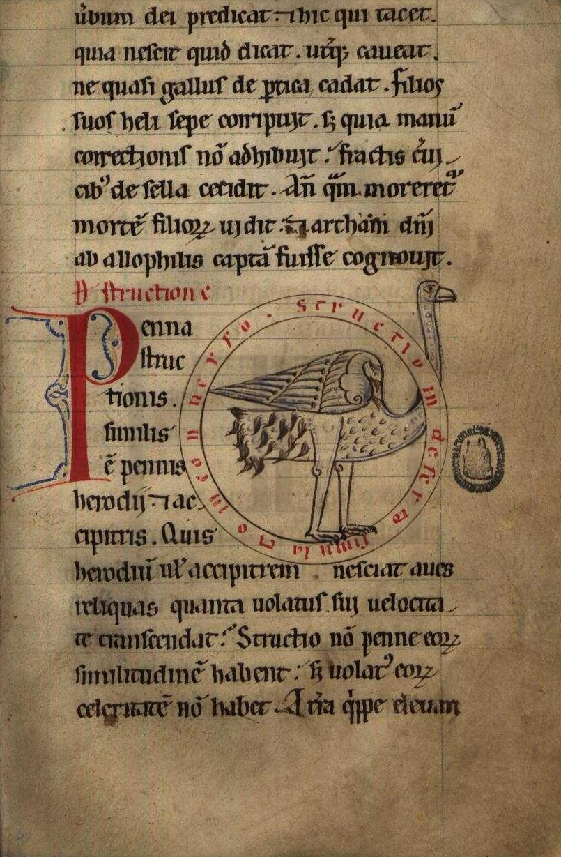 Livro das Aves: the Ostrich